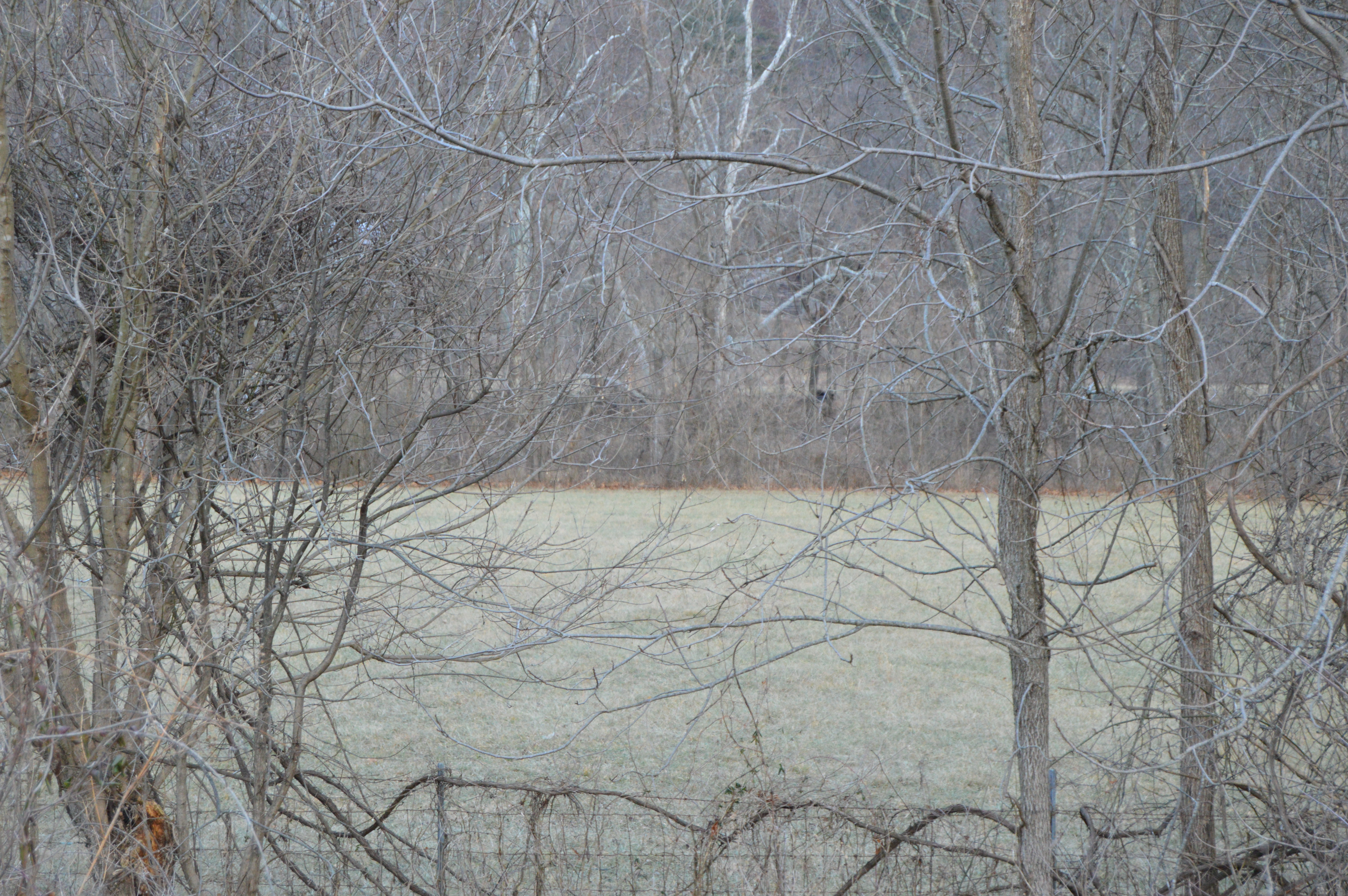 A field on the James River floodplain (the river lies immediately beyond the trees in the distance) north of the Craig Creek confluence; this photo looks east from U.S. Route 220 just northwest of Eagle Rock in Botetourt County, Virginia, United States. This is the Bessemer Archaeological Site, an important archaeological site, which is listed on the National Register of Historic Places.